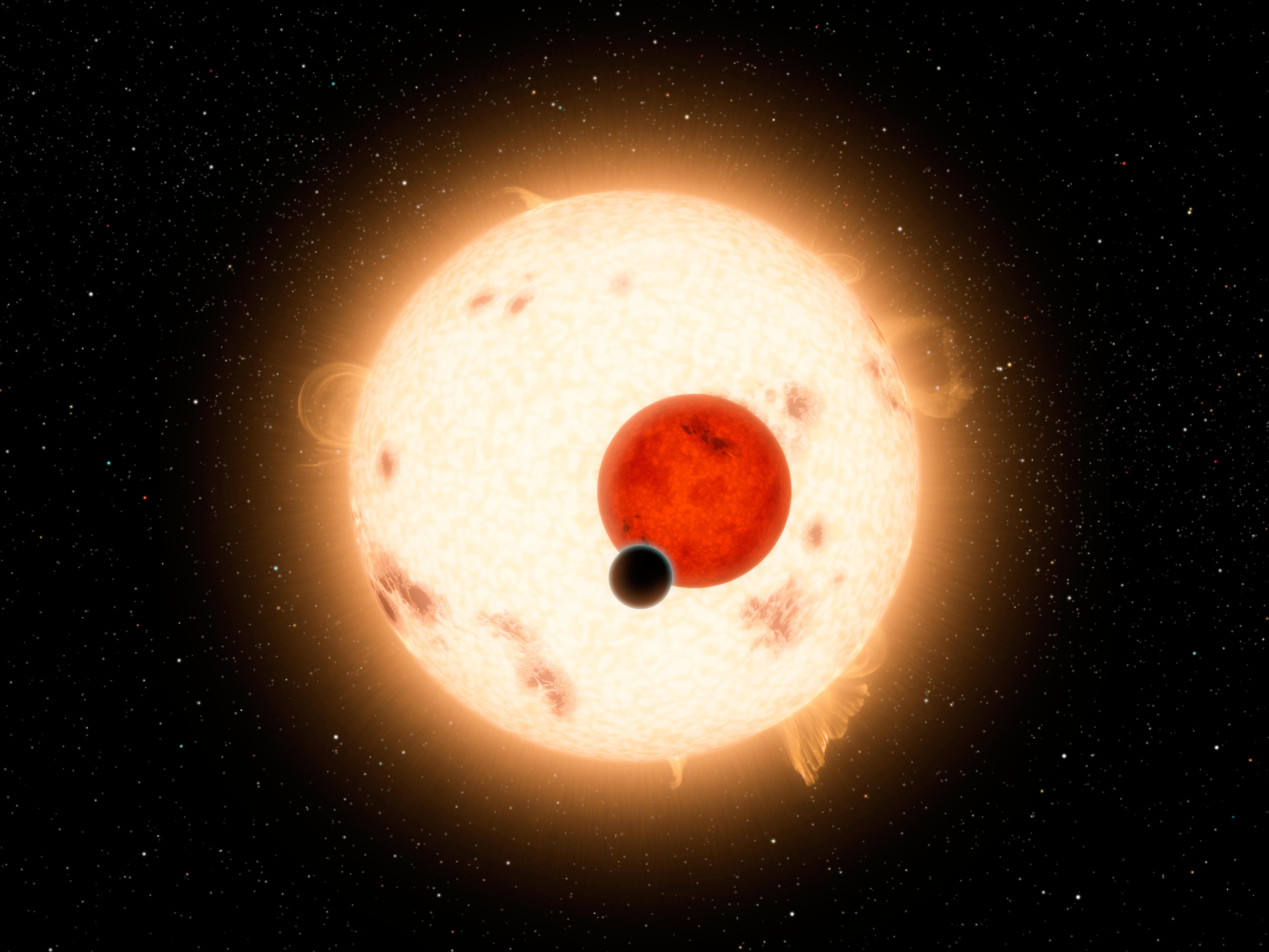 From the original caption: NASA's Kepler mission has discovered a world where two suns set over the horizon instead of just one. The planet, called Kepler-16b, is the most "Tatooine-like" planet yet found in our galaxy and is depicted here in this artist's concept with its two stars. Tatooine is the name of Luke Skywalker's home world in the science fiction movie Star Wars. In this case, the planet is not thought to be habitable. It is a cold world, with a gaseous surface, but like Tatooine, it circles two stars. The largest of the two stars, a K dwarf, is about 69 percent the mass of our sun, and the smallest, a red dwarf, is about 20 percent the sun's mass. Most of what we know about the size of stars comes from pairs of stars that are oriented toward Earth in such a way that they are seen to eclipse each other. These star pairs are called eclipsing binaries. In addition, virtually all that we know about the size of planets around other stars comes from their transits across their stars. The Kepler-16 system combines the best of both worlds with planetary transits across an eclipsing binary system. This makes Kepler-16b one of the best-measured planets outside our solar system. Kepler-16 orbits a slowly rotating K-dwarf that is, nevertheless, very active with numerous star spots. Its other parent star is a small red dwarf. The planetary orbital plane is aligned within half a degree of the stellar binary orbital plane. All these features combine to make Kepler-16 of major interest to studies of planet formation as well as astrophysics.